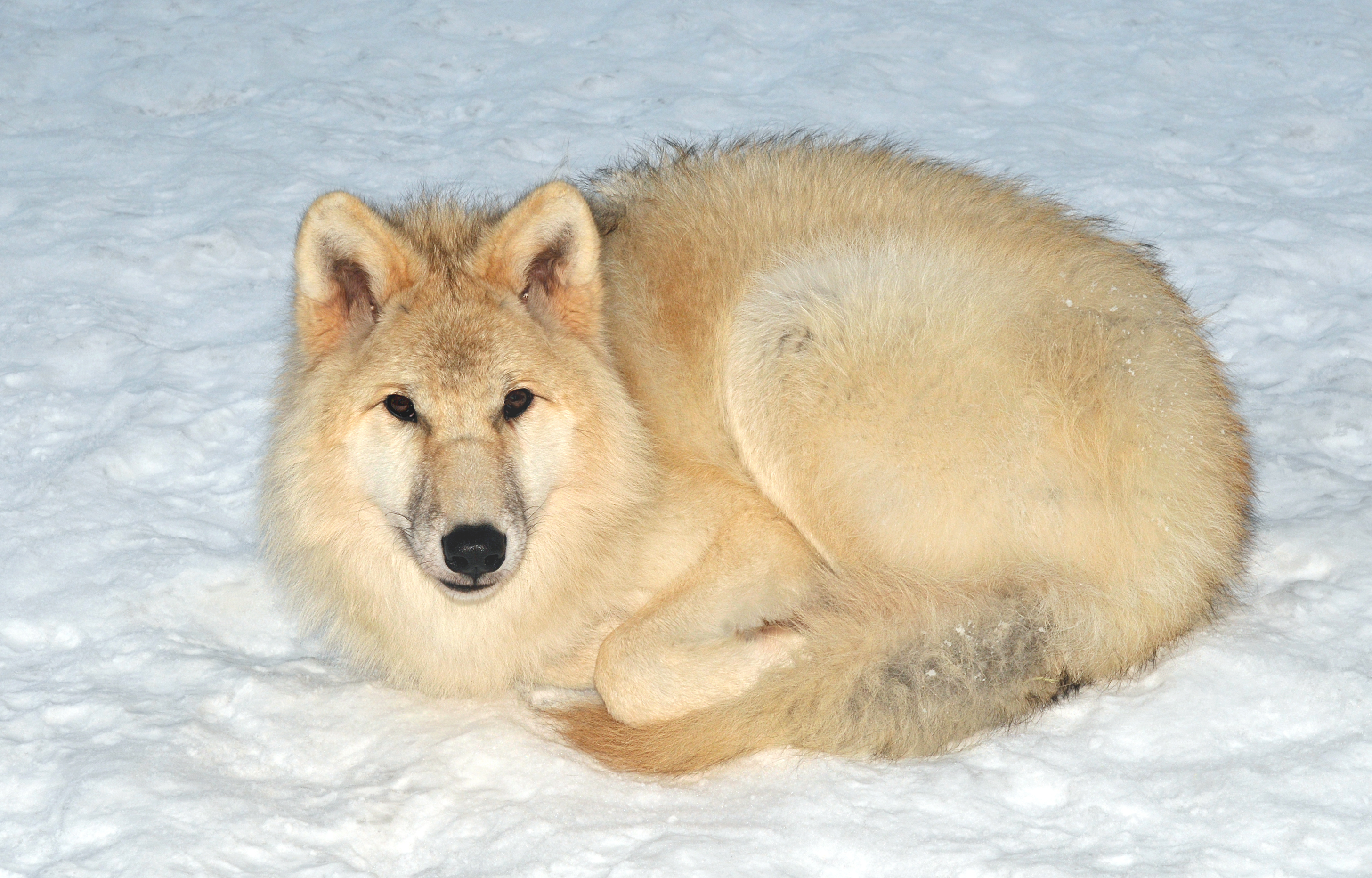 Arctic Wolf in the Wisentgehege Springe game park near Springe, Hanover, Germany